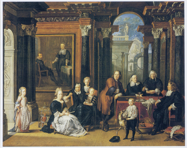 Groepsportret van de Mechelse beeldhouwer Lucas Faydherbe (1617-1697) en zijn familie : Les propositions ont été identifiées comme suit: Lucas Faydherbe (1617-1697) est l'homme derrière la table à droite; à sa droite, son épouse Marie Sn (e) yers (....- 1693); à sa gauche, appuyé sur la table, son fils Jan-Lucas Faydherbe (1654-1704); sa femme, Joanna-Maria de Croes (....- 1717), est assise à gauche, à côté de la cage à perroquet; leurs quatre enfants sont également représentés: Jan Faydherbe (1685-1723), le garçon de droite, debout devant la table; Anna-Maria Faydherbe (1687-1700), la fille à gauche du centre, assise avec un chien dans ses bras; Johanna Faydherbe (1684-1711), debout derrière sa sœur, et Maria-Thersia Faydherbe (1683-1722), la fille debout à l'extrême gauche; Le père de Jeanne Marie de Croes, Etienne de Croes, est à l'extrême droite; son épouse Jeanne Pallet est assise à gauche du milieu, vêtue de noir. Le grand double portrait en arrière-plan représenterait les parents de Marie Snyers: André Snyers et Marguerite Peeters